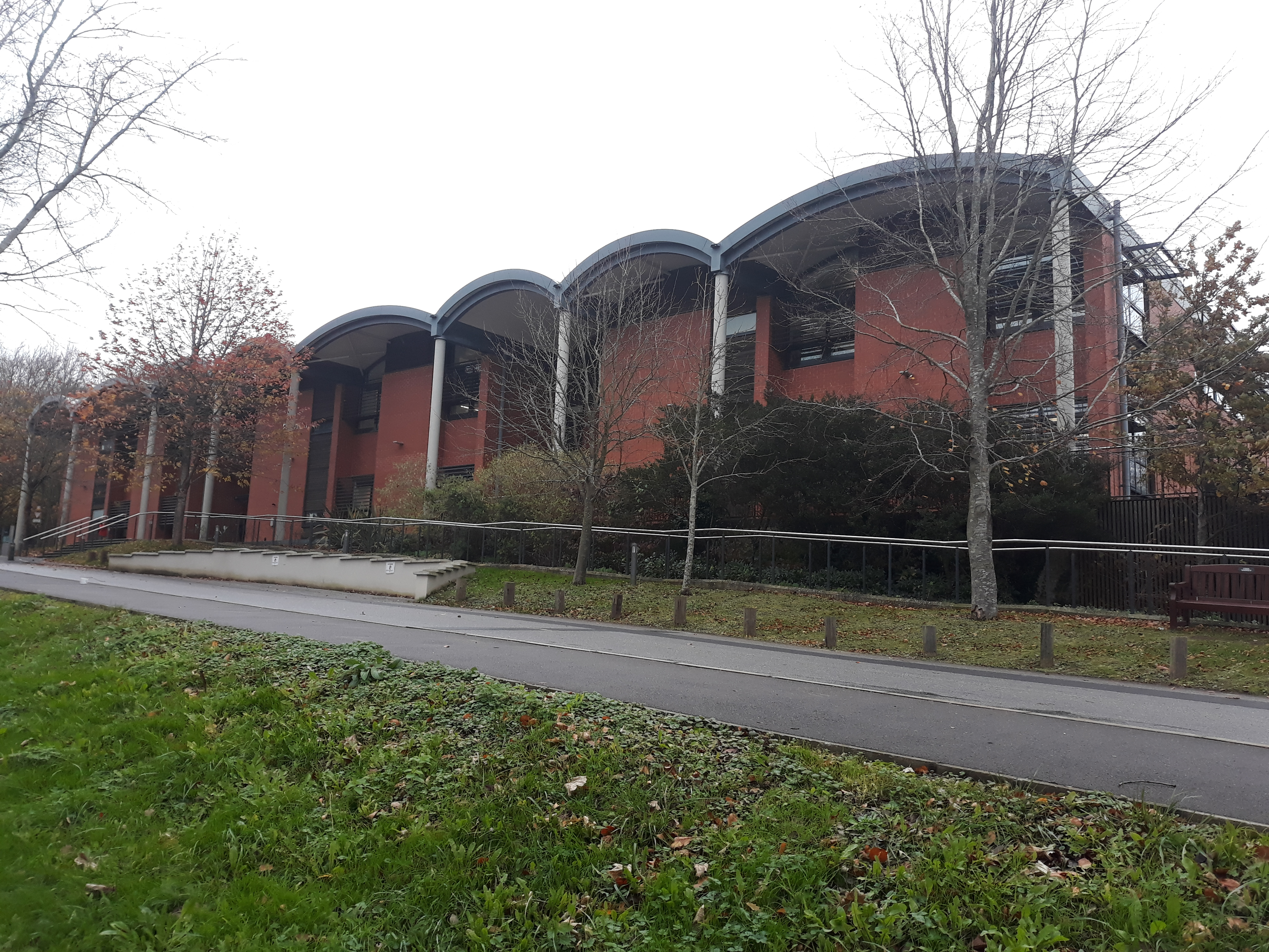 LPS